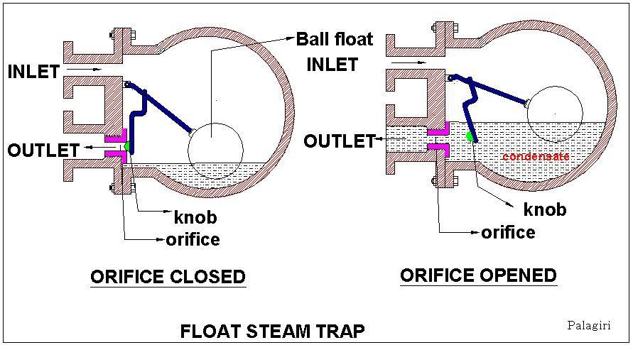 Ball float steam trap.Akind of steam trap